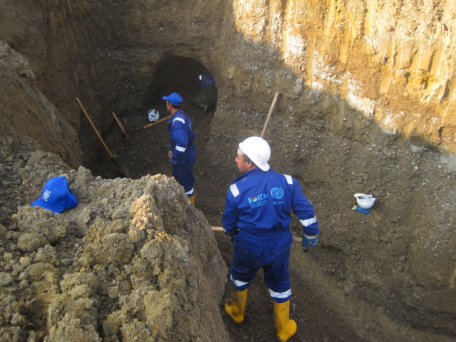 IOM_Azerbaijan_Masons_Specialized_in_Kahriz_Renovation_aka_Kankans_at_Work